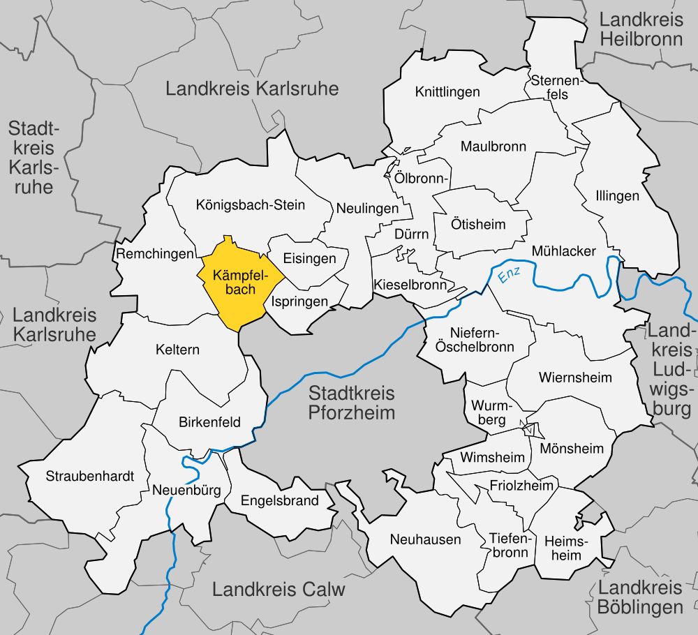 position of Kämpfelbach within distict of Enzkreis, Baden-Württemberg, Germany